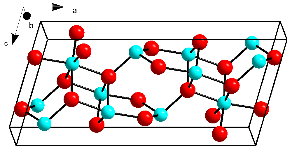 Crystal structure of β-Gallium oxide